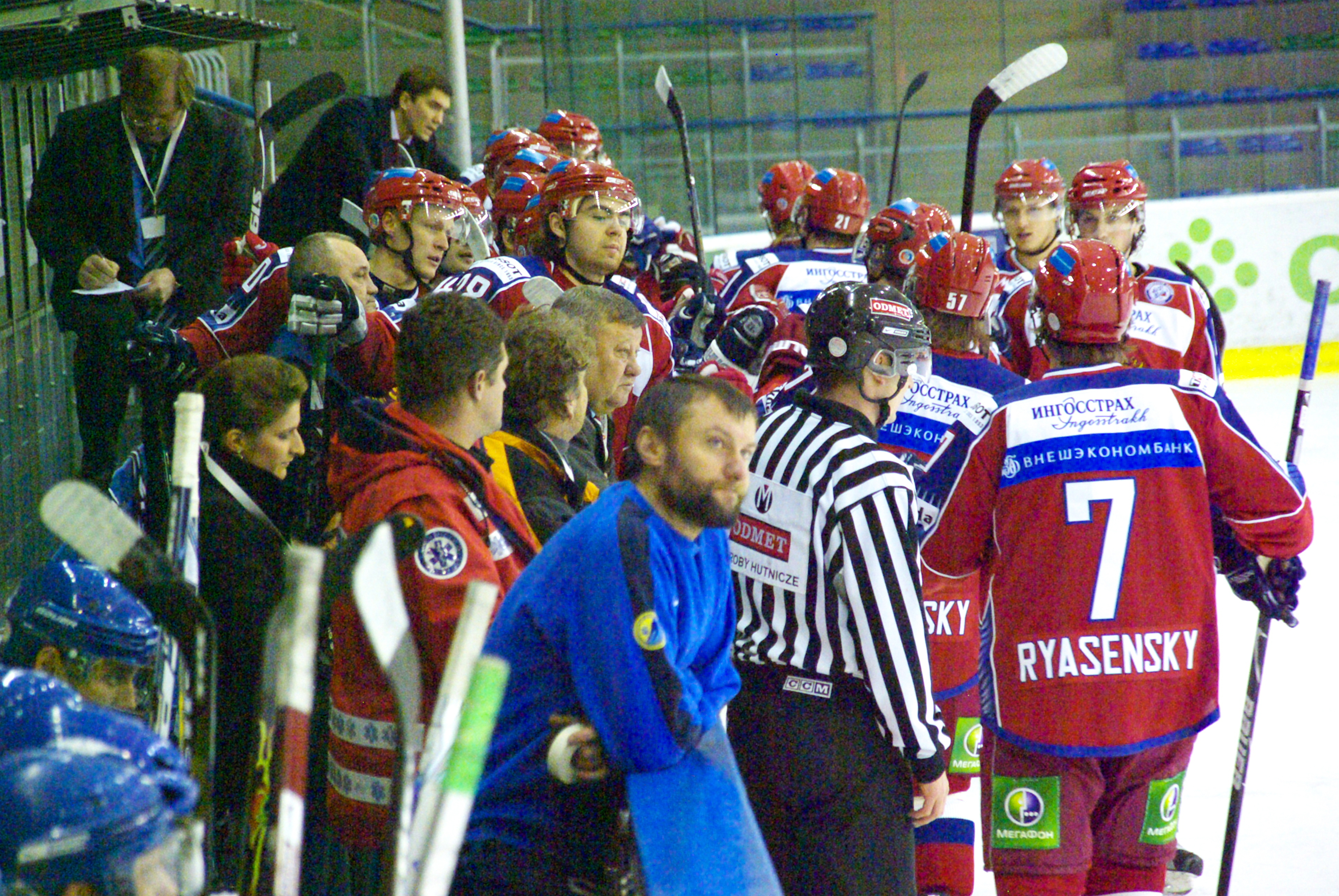 Russia B ice hockey national team during EIHC Tournament in Sanok (Poland), November 11, 2010